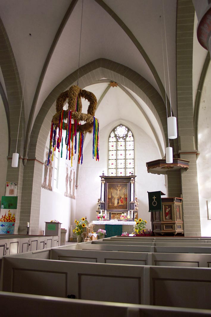 Protestant church in Bad Sassendorf.